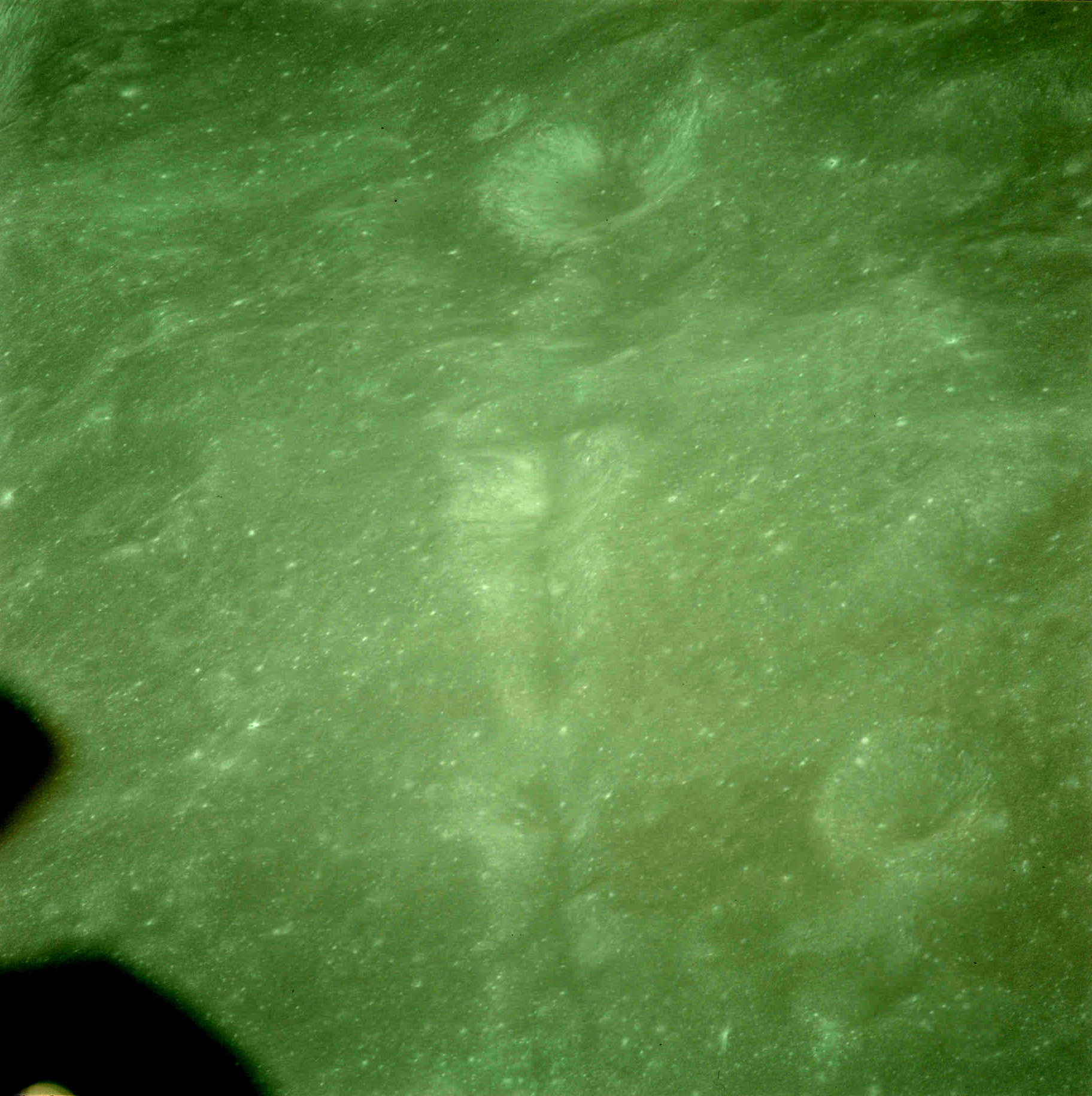 Oblique view of Catena Gregrory, a crater chain near Gregory crater, on the far side of the moon. Part of the Apollo spacecraft creates the shadow in lower left. Brightness and contrast adjusted.